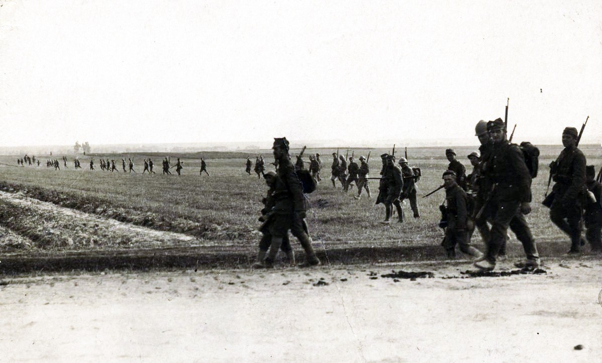 Polish infantry during Battle of Warsaw 1920